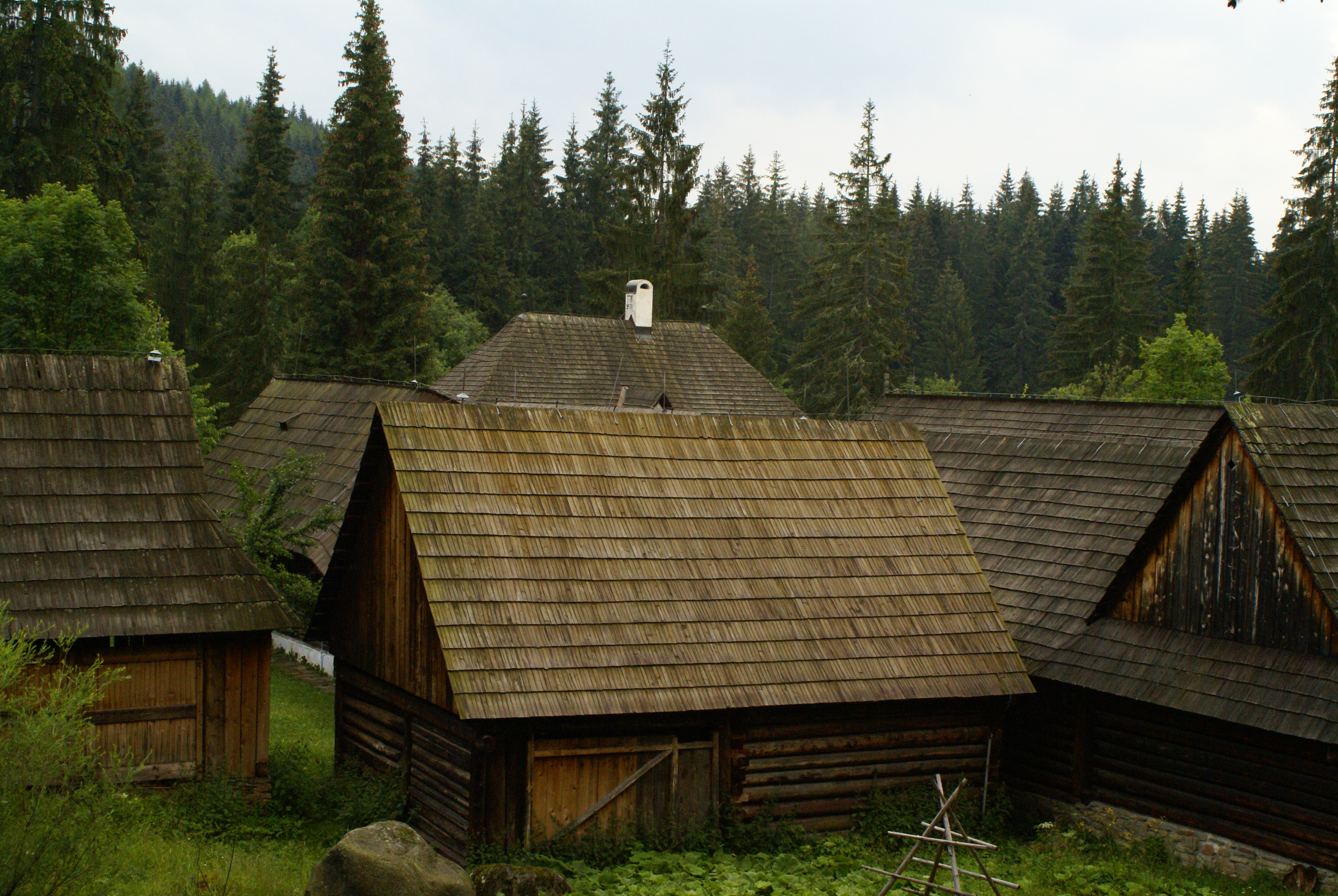 Open air museum of typical slovakian old Orava village, Zuberec, West Tatras, Slovak Republic